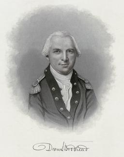 Daniel Brodhead (1736-1809) portrait from the NYPL Thomas Addis Emmet Collection of Illustrations Relating to the American Revolution. Dated 1886.